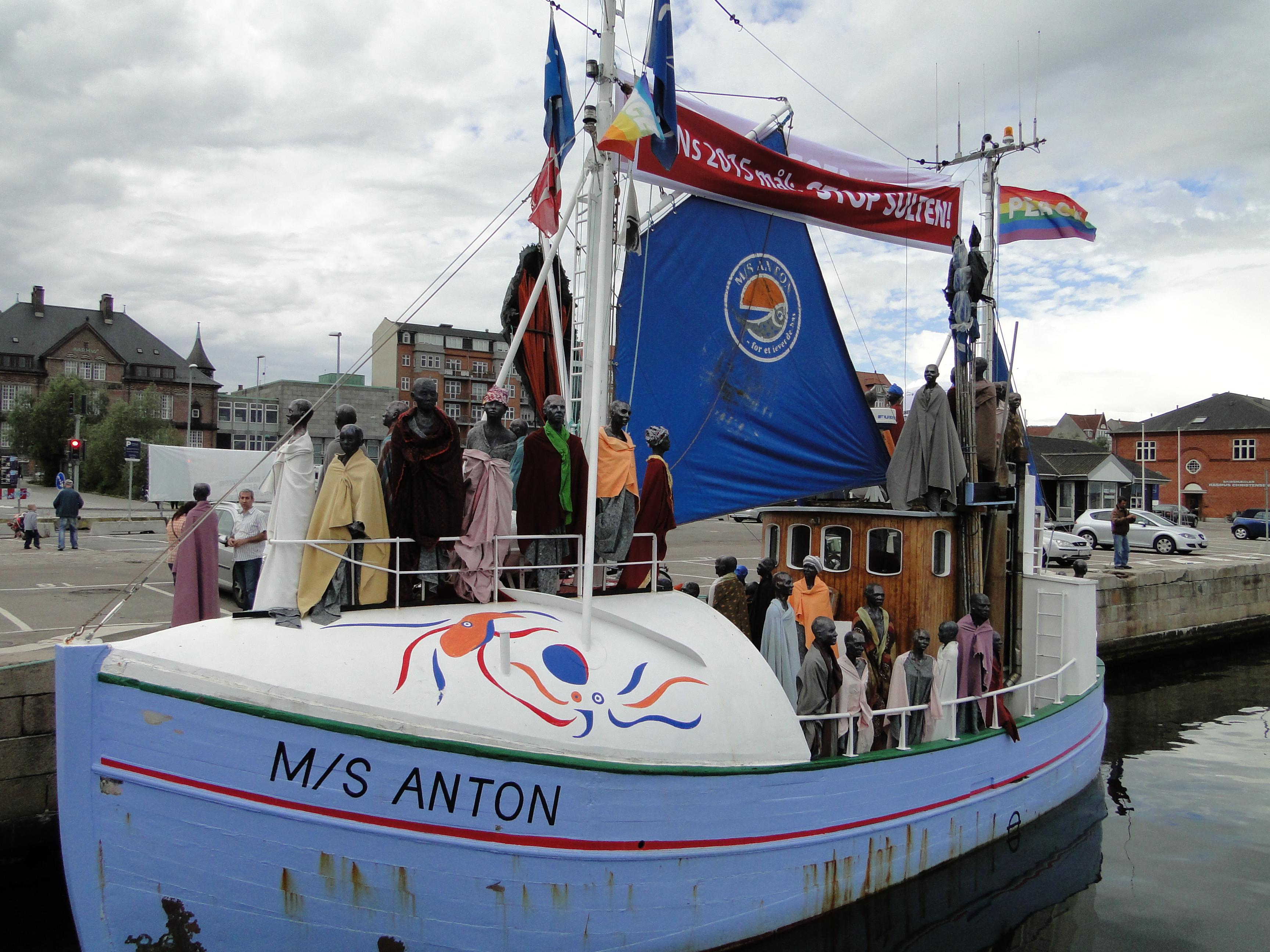 The sculpture "the refugee ship" is made by the Danish artist Jens Galschiot. The sculpture was exhibited at Aarhus in Denmark.